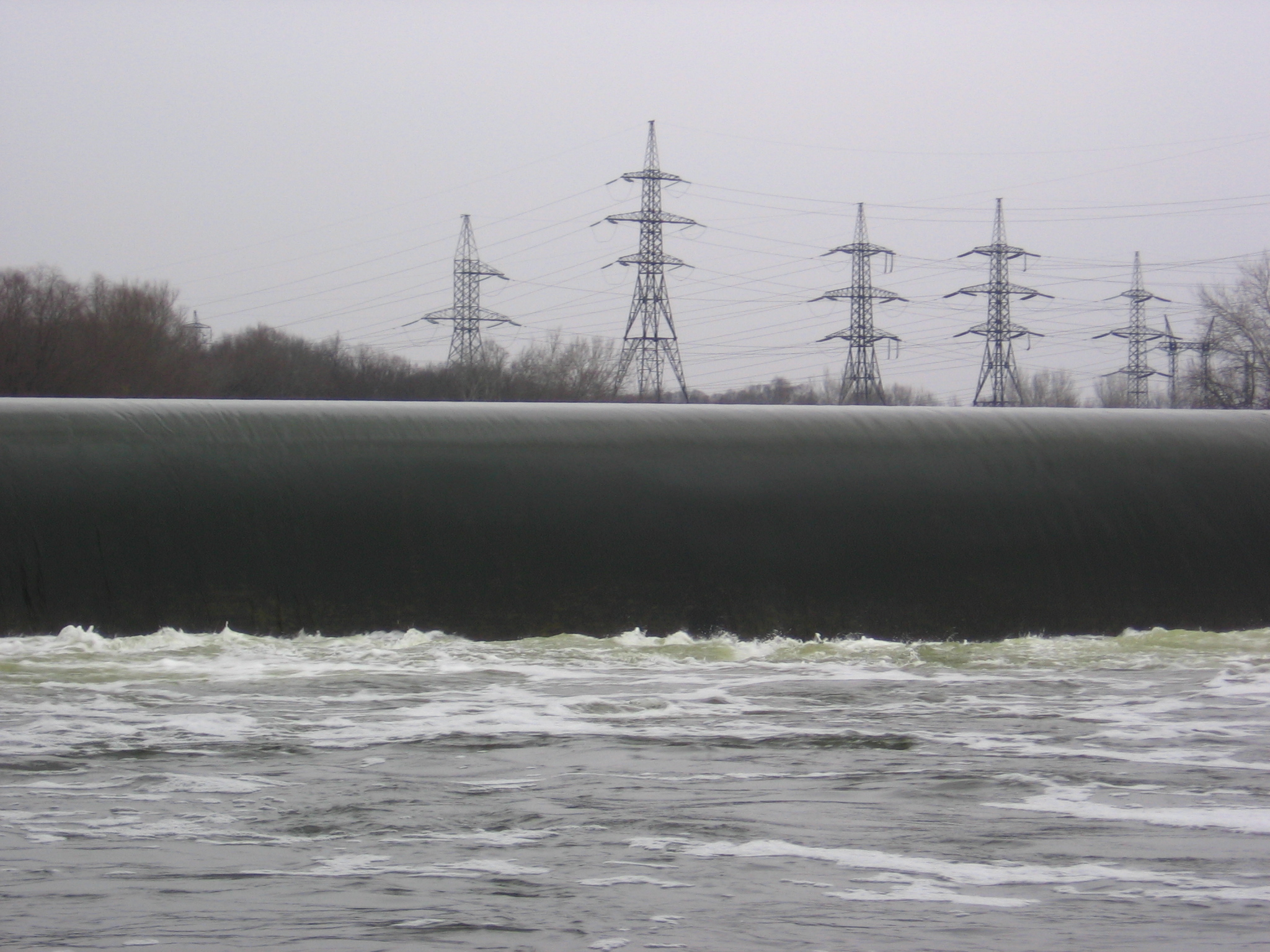 Luhansk power station dam